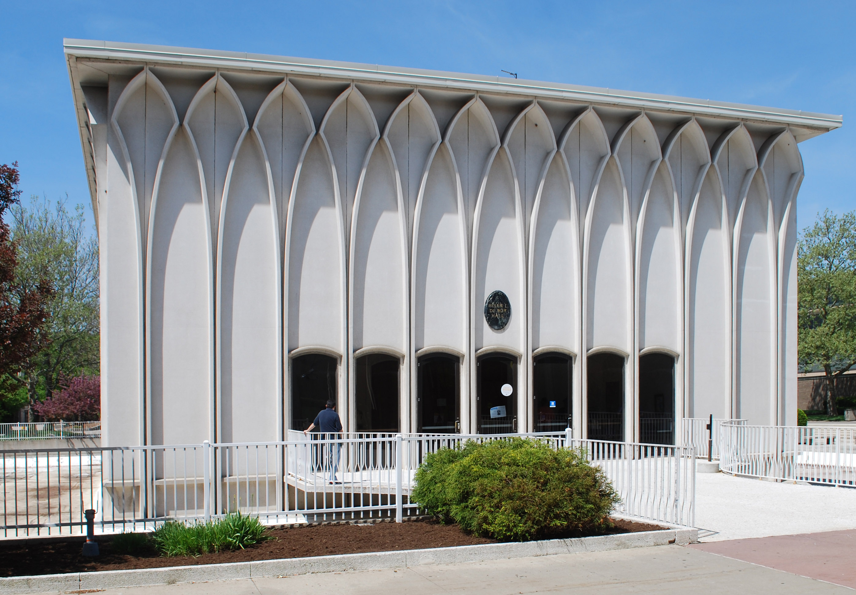 DeRoy Auditorium — on the Wayne State University campus, Midtown Detroit, Michigan. 1964 Modernist architecture by Minoru Yamasaki. On the National Register of Historic Places.